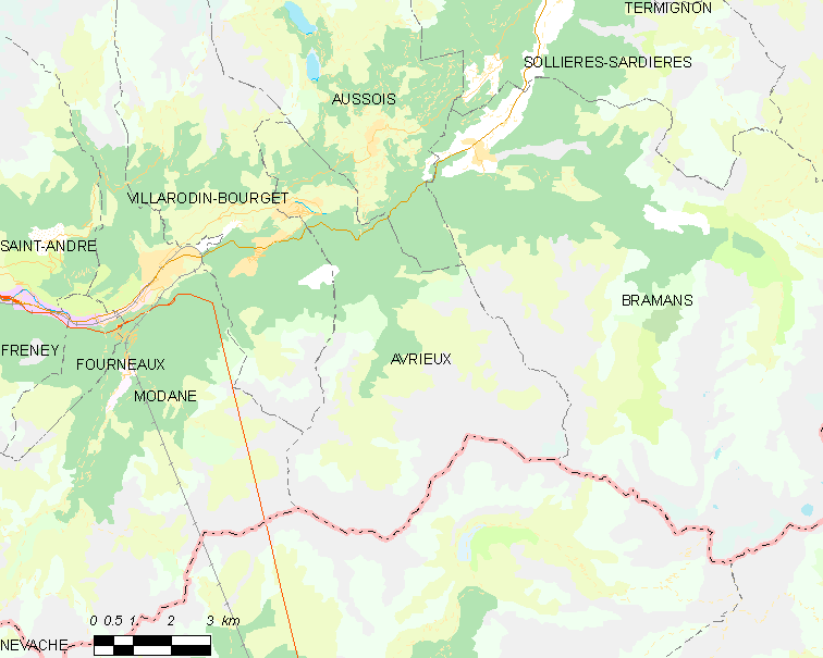 Map of French municipality